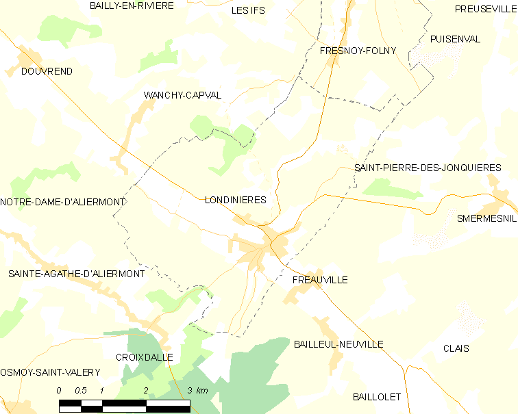 Map of French municipality Londinières